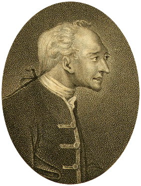 Print of miser John Meggot Elwes